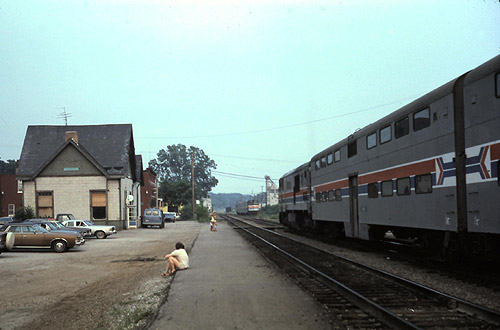 Calumet and Indiana Connection trains with ex-C&NW bilevels at Valparaiso station in August 1980